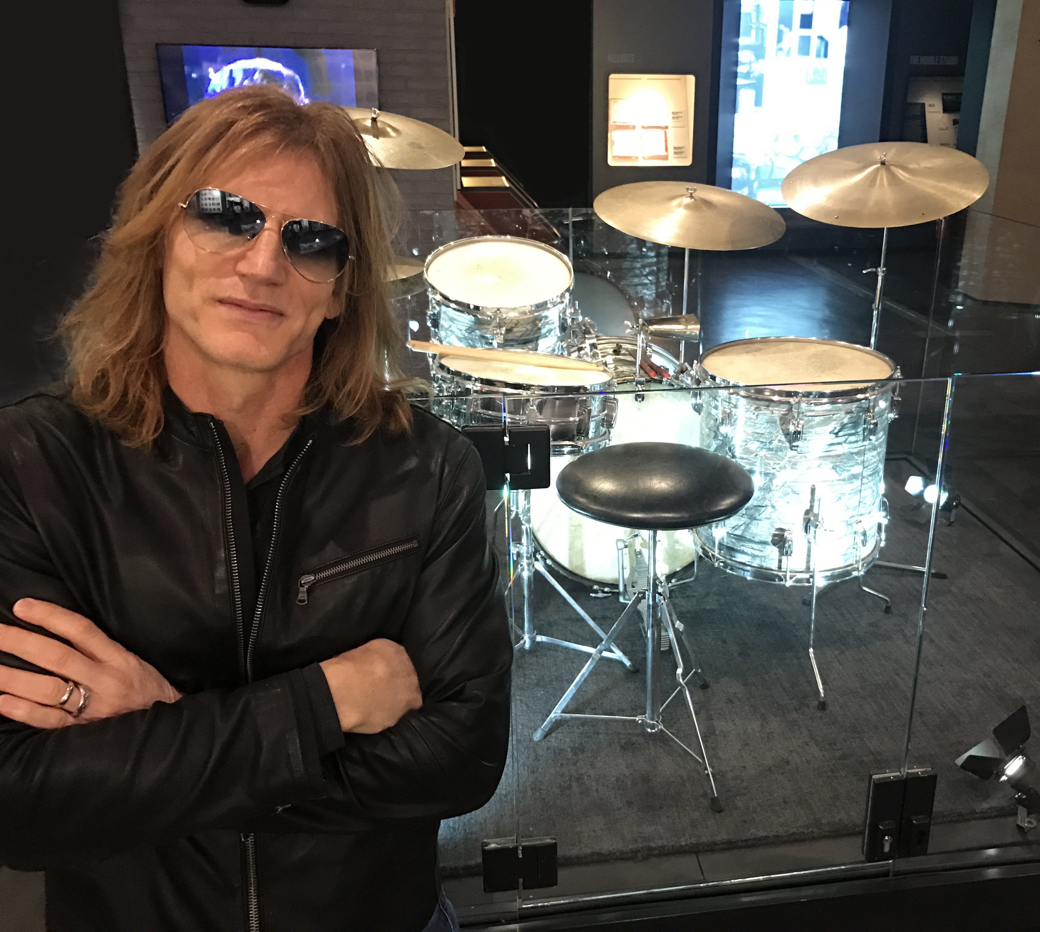 Photographer and drummer Rob Shanahan with Charlie Watts' 1960's Ludwig kit.